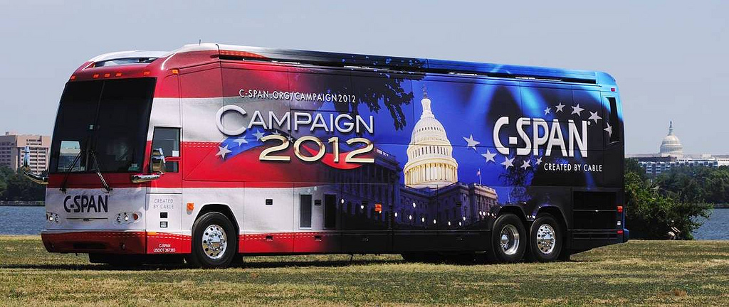 2012 campaign version of C-SPAN Digital Bus.